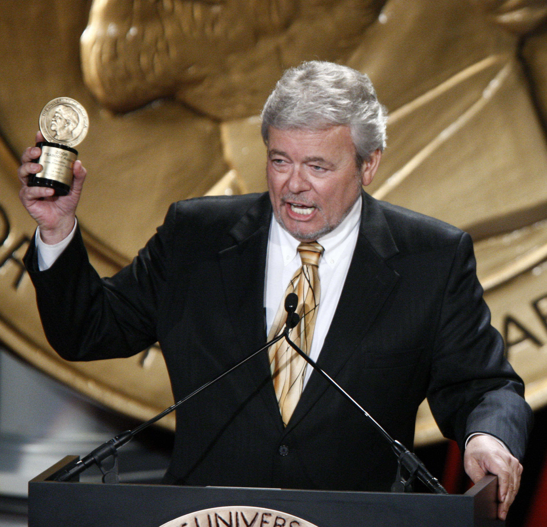 PHOTO CREDIT: ANDERS KRUSBERG / PEABODY AWARDS George Knapp and Matt Adams 69th Annual Peabody Awards Luncheon Waldorf=Astoria Hotel New York, NY USA May 17, 2010